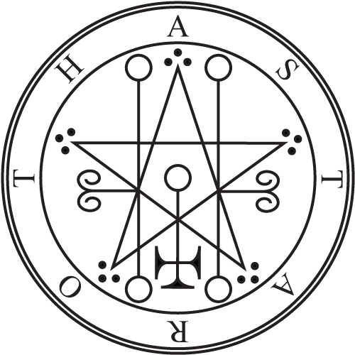 I made this image myself with Adobe Illustrator CS2, using Phorque's Seal_of_demon_Astaroth.JPG found on the Astaroth wikipedia page as a base. I am the copyright holder of this file, but not the seal's design.